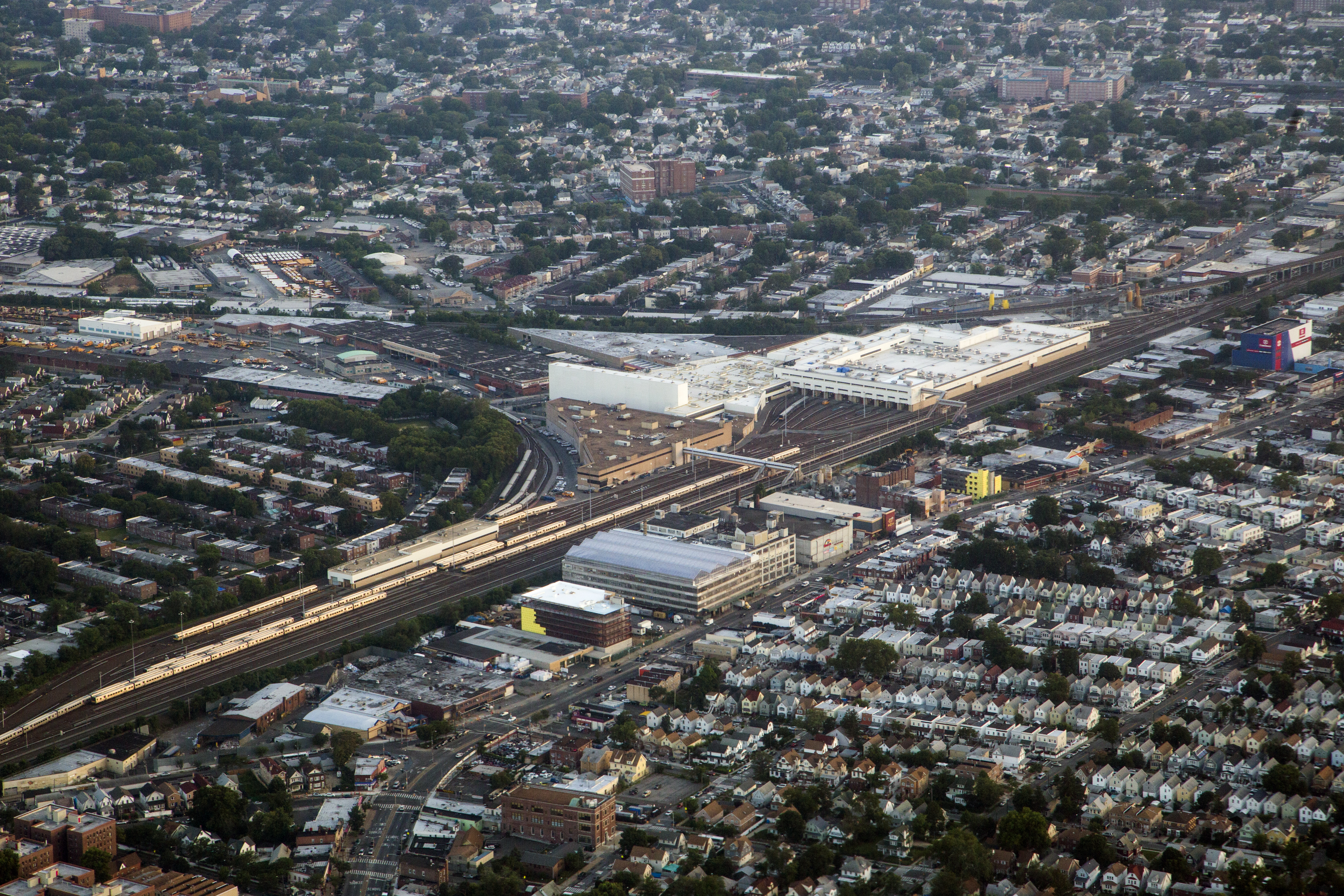 Aerial image of the LIRR's Hillside Maintenance Complex in Queens.